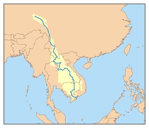 This is a map of the Mekong River watershed. I, Pfly, made it, based on USGS data.